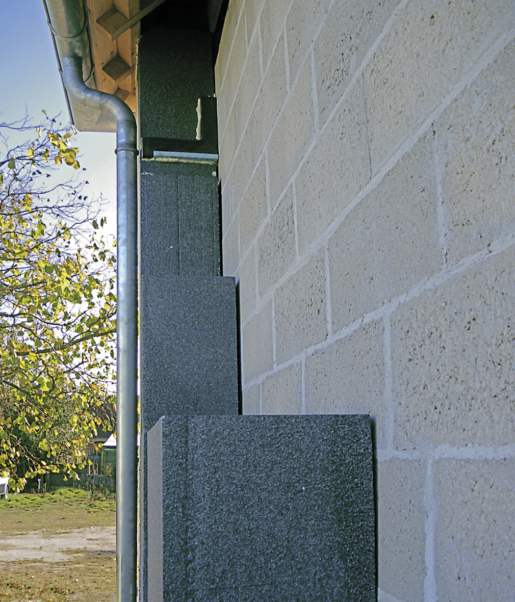 Isolation thermique par l’extérieur en polystyrène graphité en cours de pose sur une maison passive, Vendée